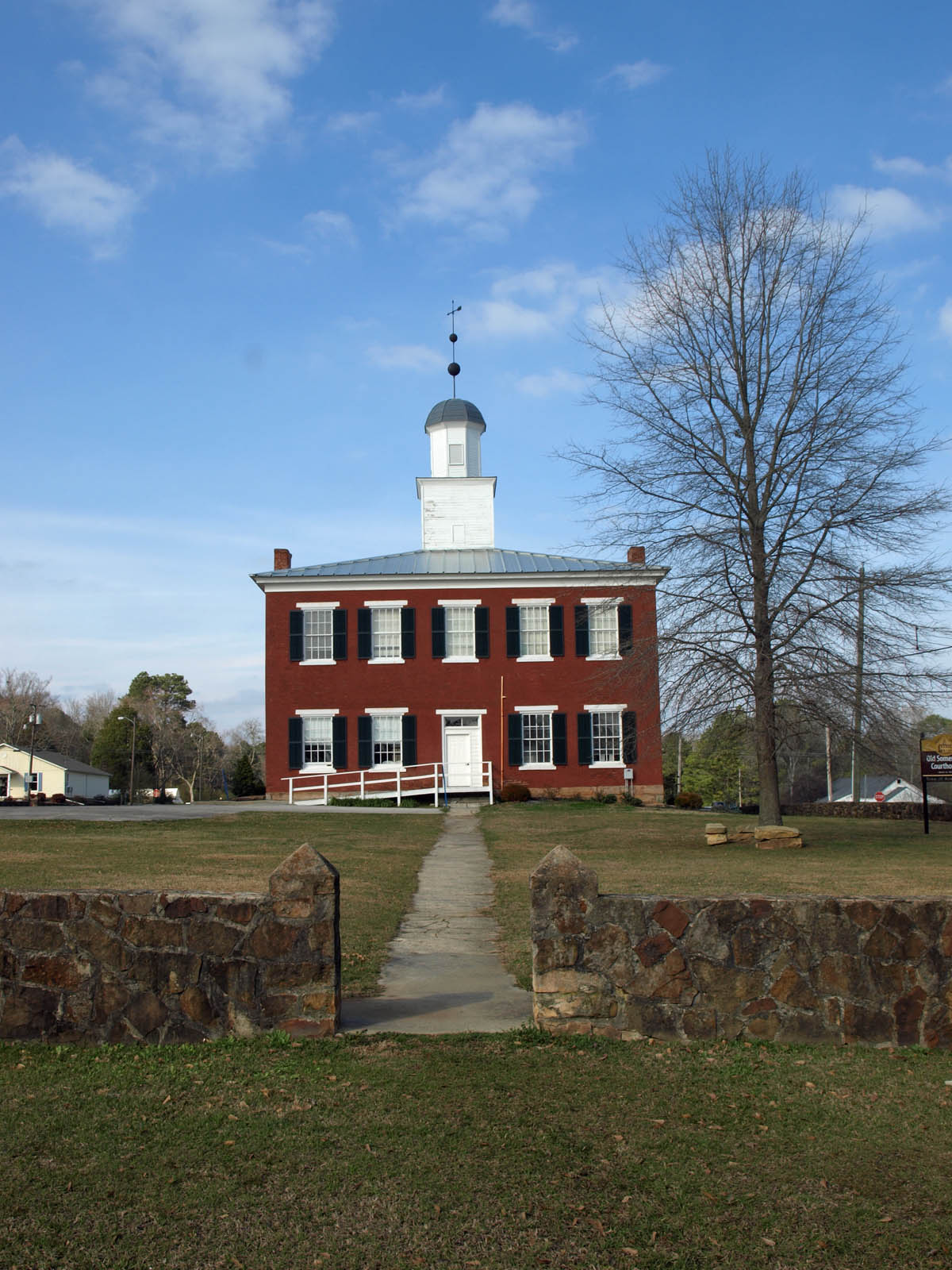 The Somerville Courthouse in Somerville, Alabama, listed on the National Register of Historic Places